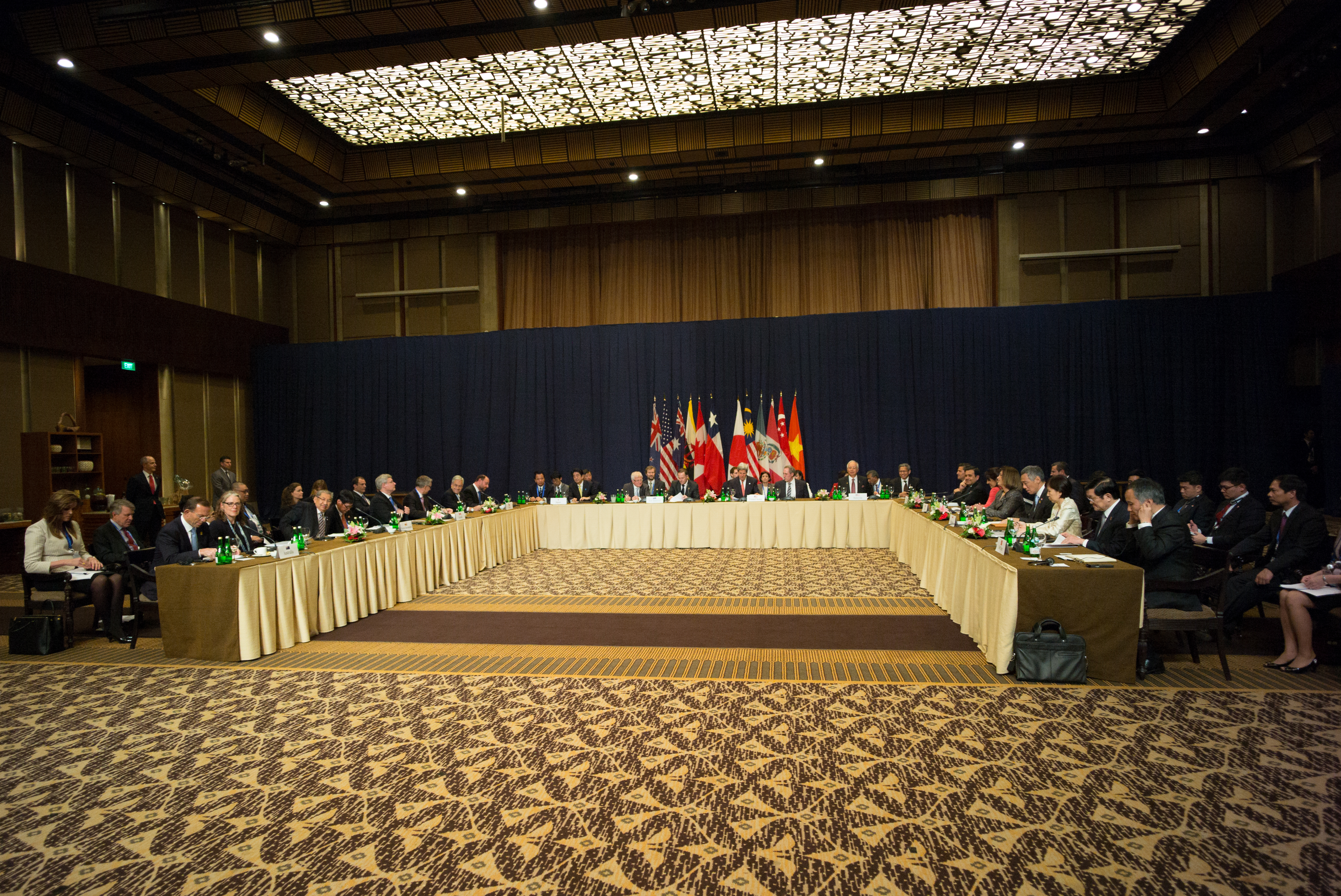 Bali, Indonesia (October 8, 2013) U.S. Secretary of State John Kerry participates in a meeting with nations' leaders discussing the Trans-Pacific Partnership (TPP). [State Department photo by William Ng/Public Domain]